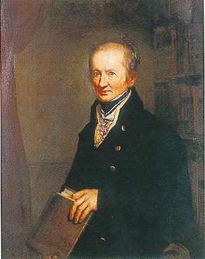 Portrait of Johann Gottfried Jakob Hermann (1772-1848)